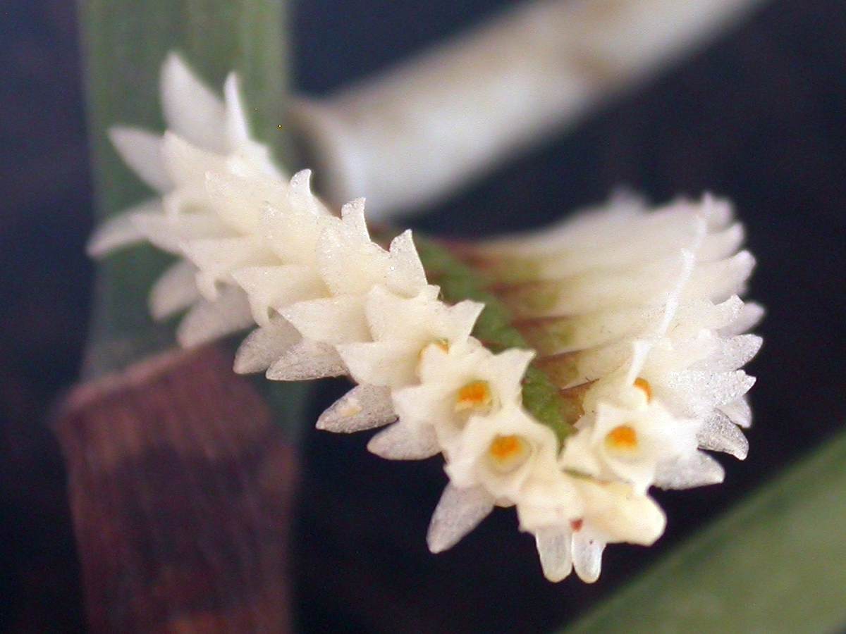 I had this one as Campylocentrum ssp.. It approximately matches the description of C. rhomboglossum however it also fits the (unconclusive) drawing of C. iglesiasii in Pabst's book. I did not manage to get the original description and full illustration of Brade's original publication. Well, my bet now goes more to Campylocentrum iglesiasii. Who knows...